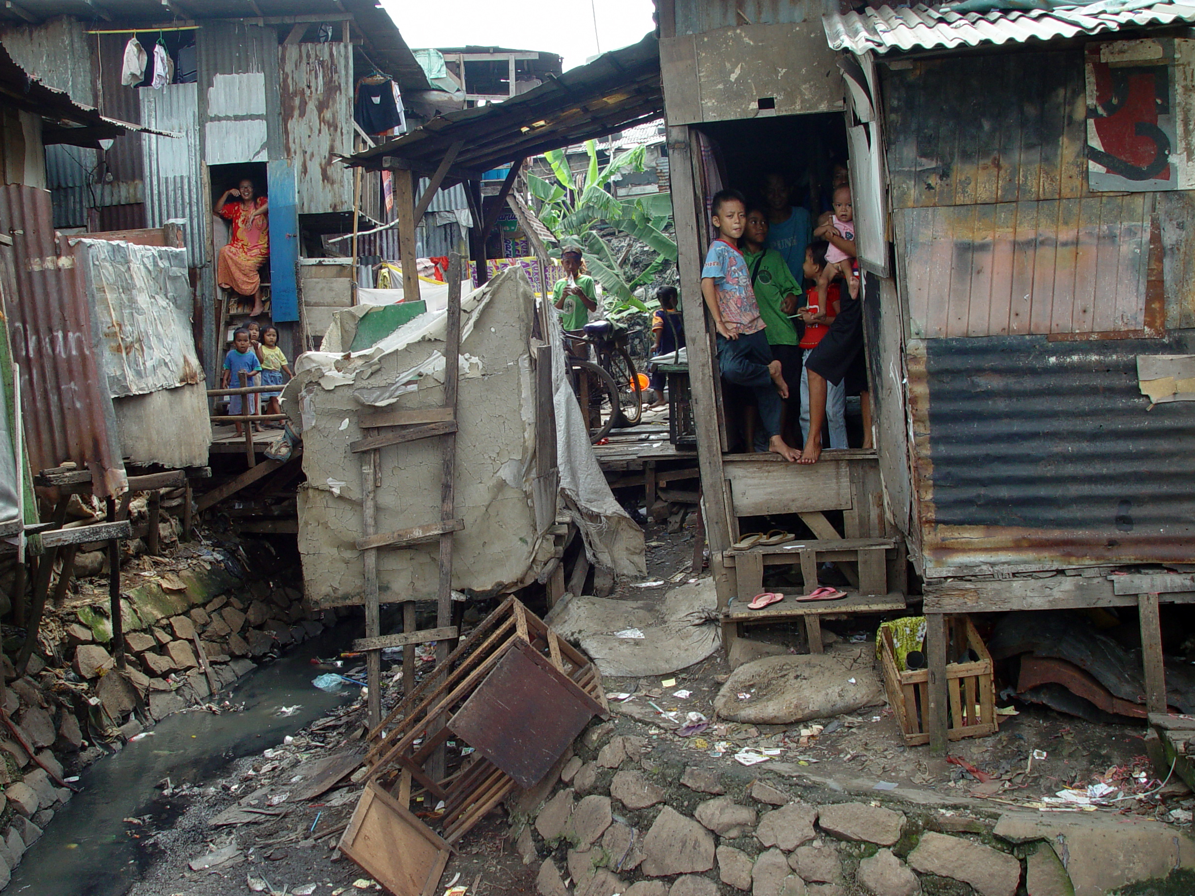 Slum life, Jakarta Indonesia.